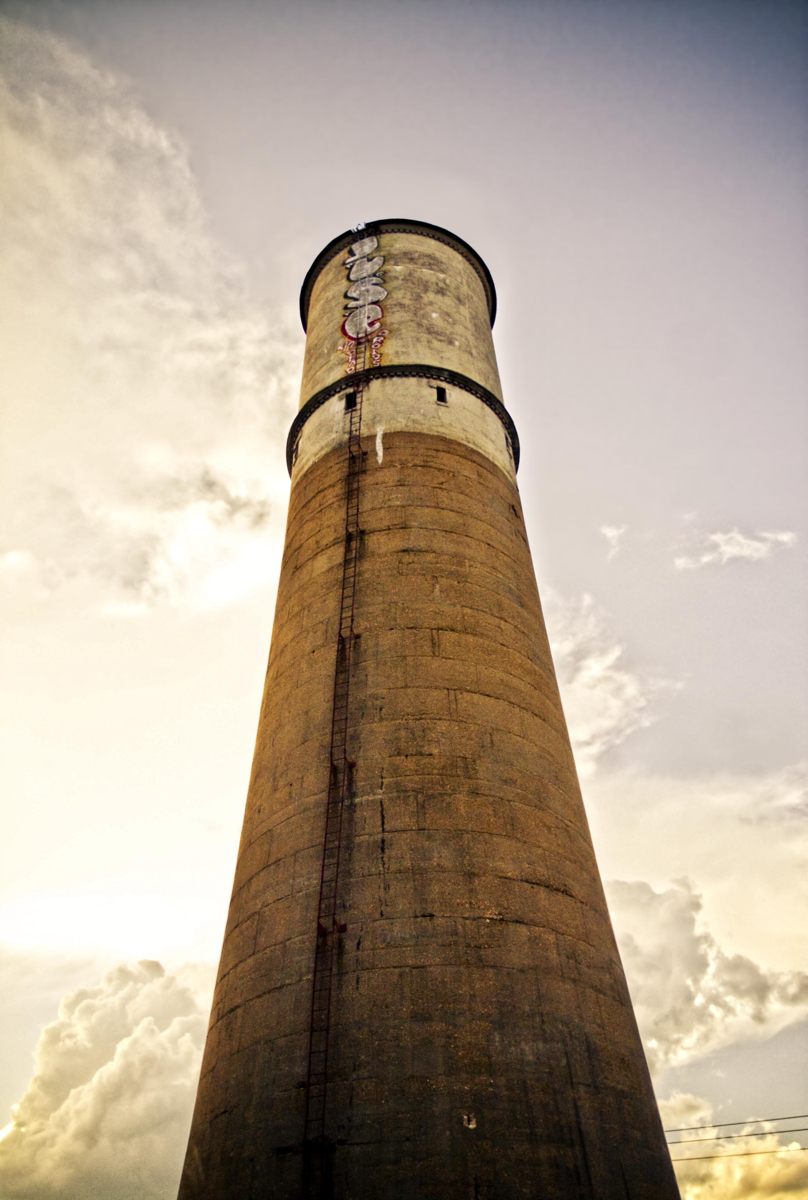 Old Fourth Ward Smokestack